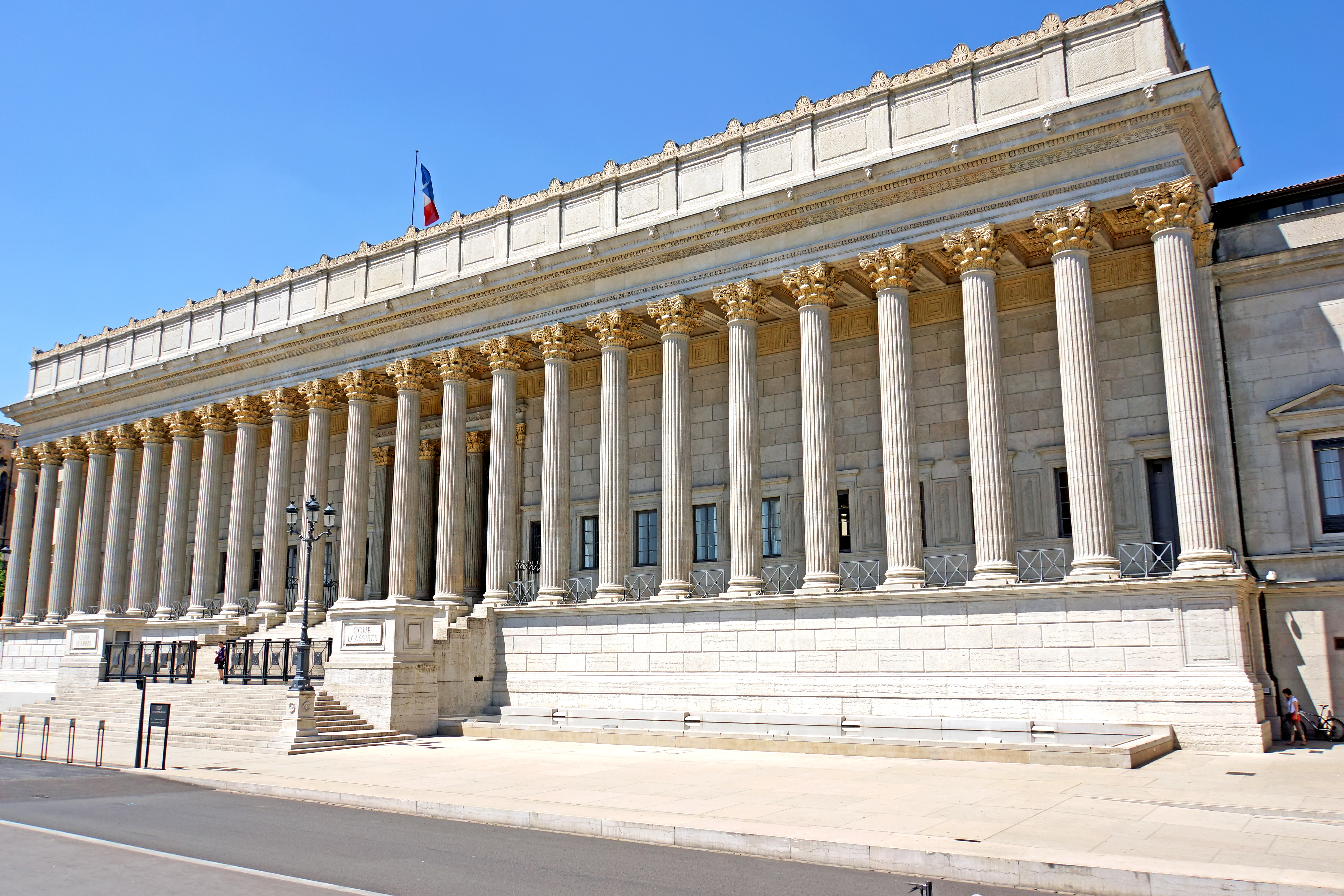 PLEASE, NO invitations or self promotions, THEY WILL BE DELETED. My photos are FREE to use, just give me credit and it would be nice if you let me know, thanks. Palace of Justice, construction began in 1835 and ended in 1842. Designed by French architect Louis-Pierre Baltard, the Palais is one of France’s most impressive 19th-century buildings, filled with neoclassical details that run in contrast to the flamboyant Rococo style of the time. Known as the “Palace of the 24 Columns,” Baltard’s design was given the grand seal of approval by the French government in 1996 and officially named a “monument historique.”